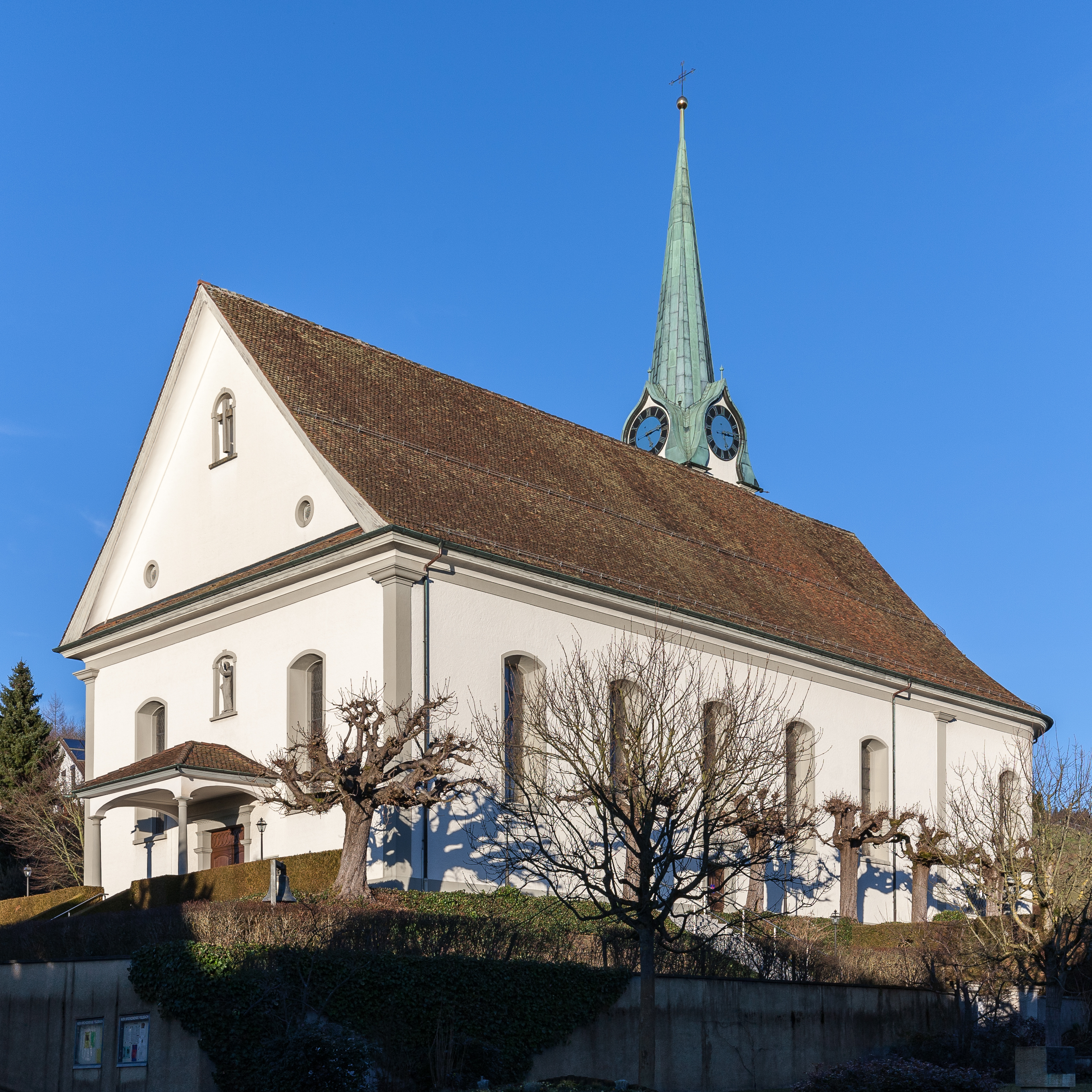 Roman-Catholic church St. Agatha in Fislisbach, Canton of Aargau, Switzerland